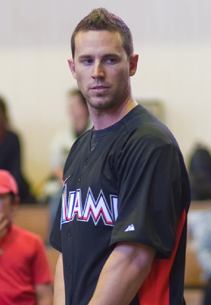 12/5/2011 - Brett Hayes, a Major League Baseball catcher for the Miami Marlins, plays baseball with participants during a baseball clinic held at the Yokota Teen Center, Dec. 3, 2011. The Marlins, along with Billy the Marlin and Marlins Mermaids, held activities such as a baseball clinic, a dance clinic and meet and greets, sponsored by Armed Forces Entertainment. (U.S. Air Force photo/Osakabe Yasuo)